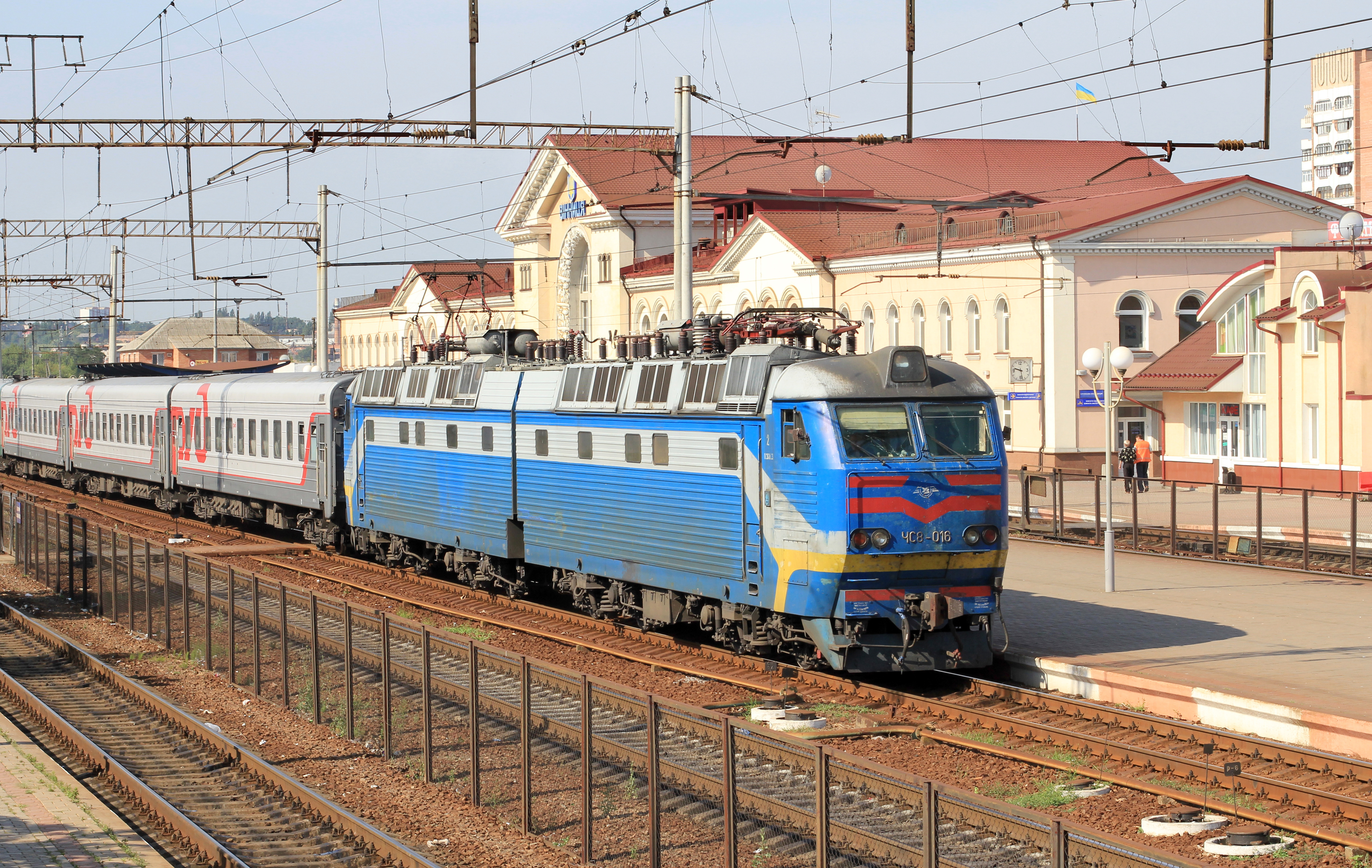 Electric locomotive Škoda ChS8-016 in Vinnitsa railway station. This locomotive has been made in 1987.